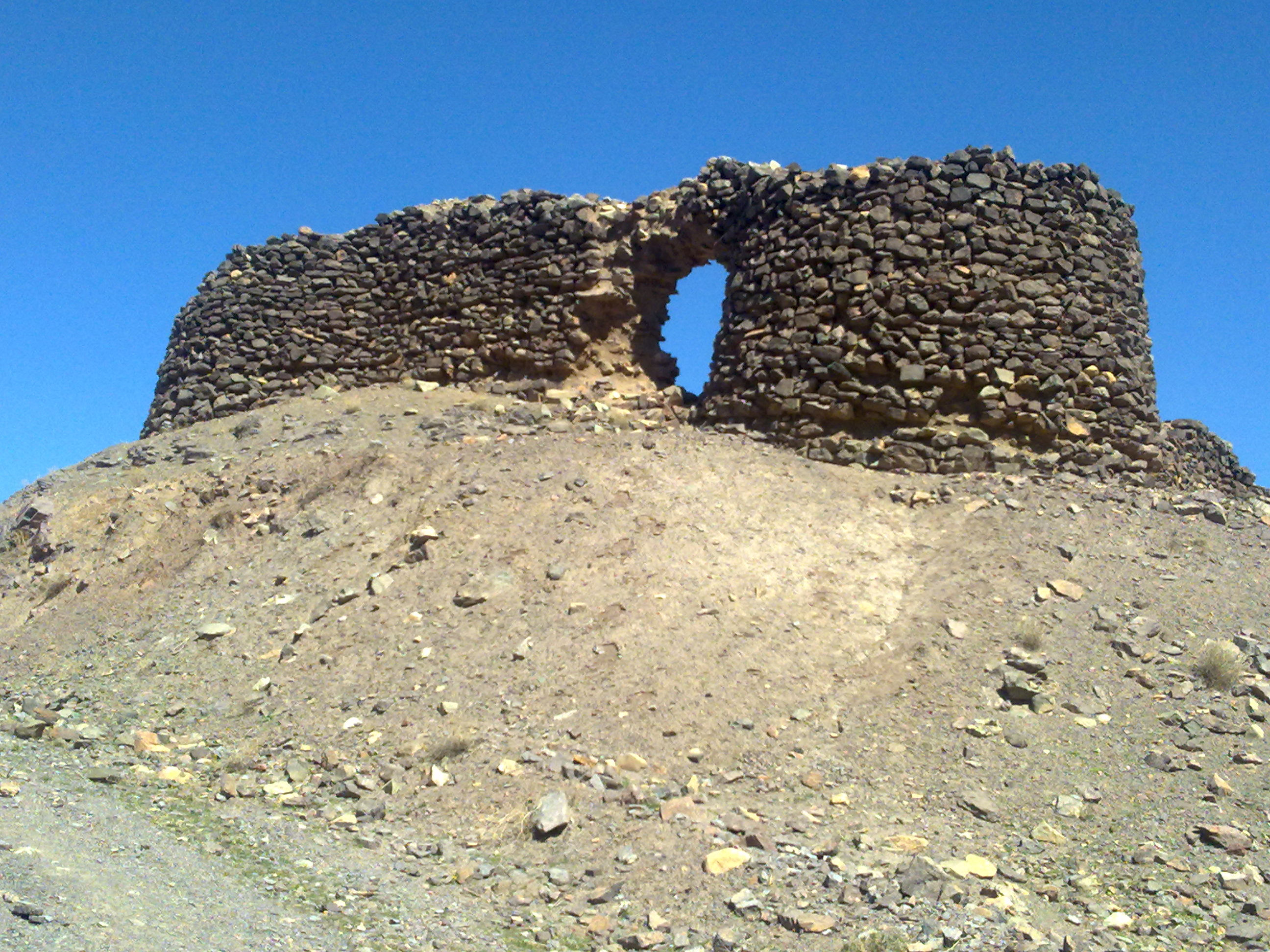 castel of sassanain